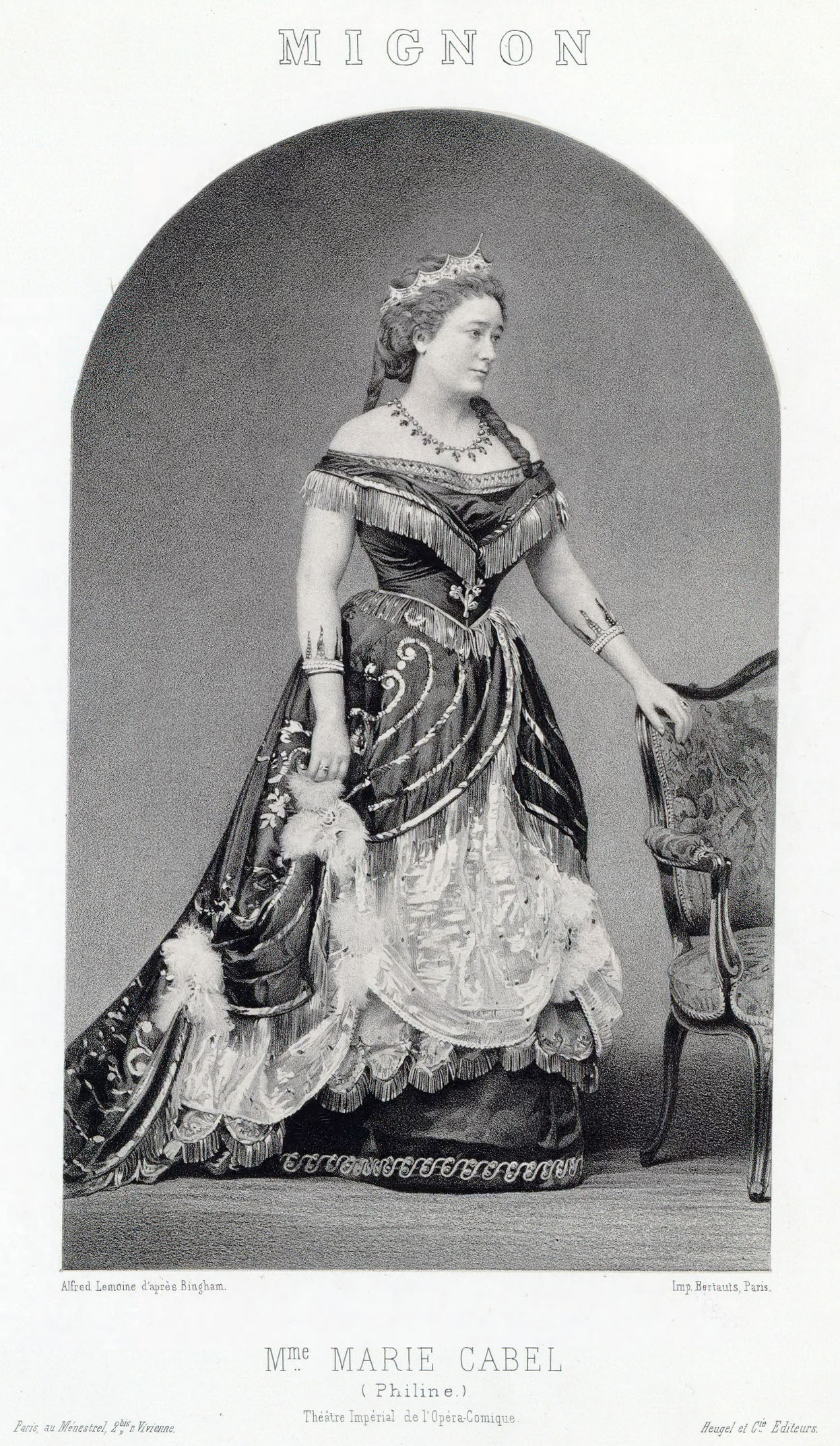 Marie Cabel as Philine in Ambroise Thomas' opera Mignon, a role she created on 17 November 1866 at the Opéra-Comique in Paris